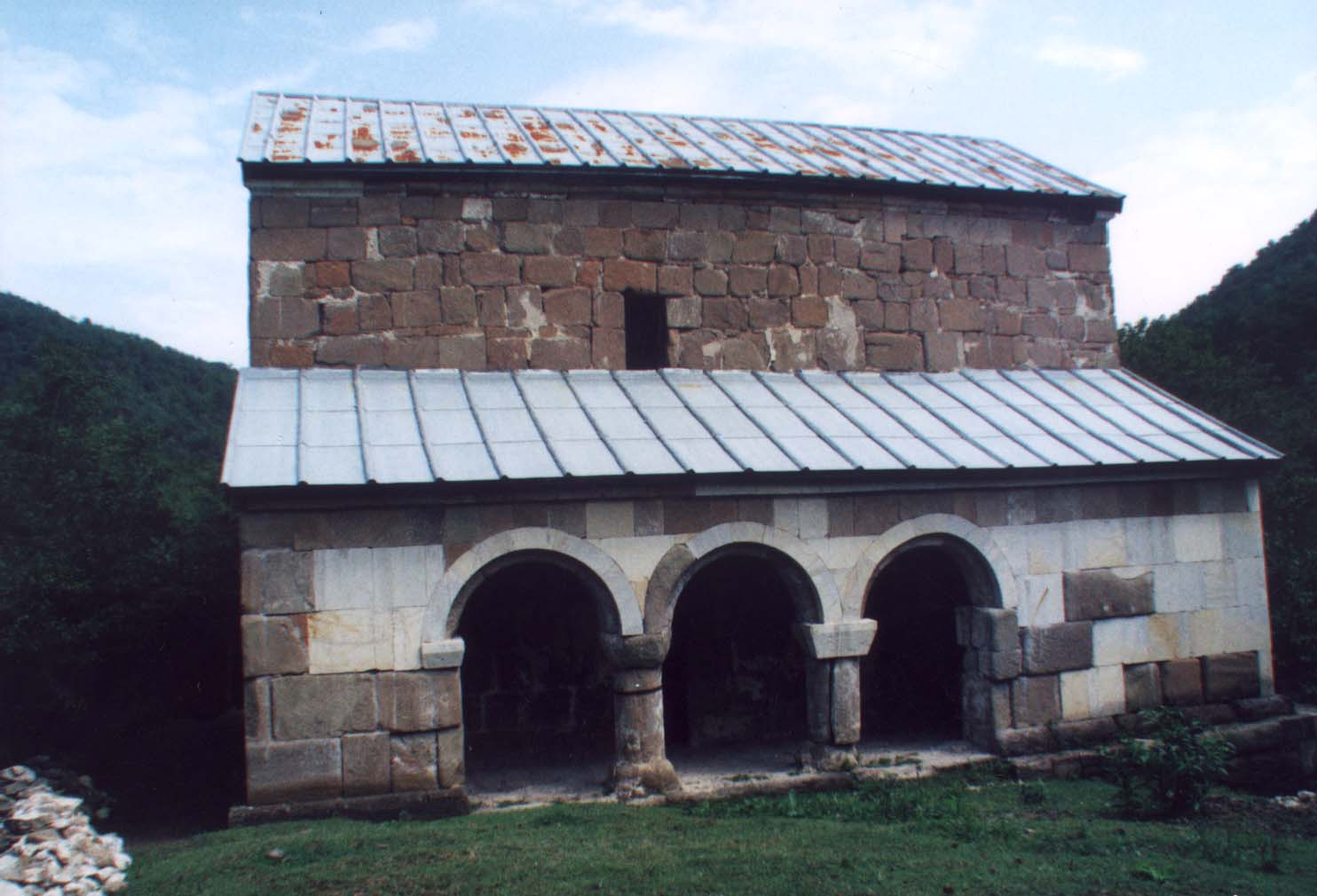 Tabakini Church near Argveti, Zestafoni